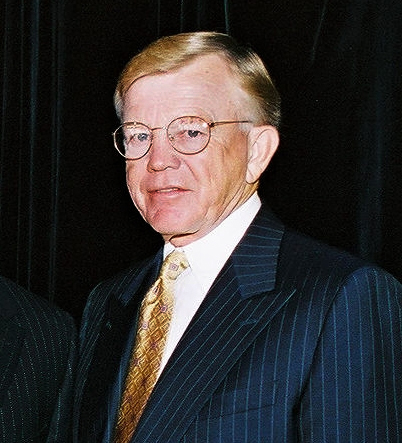 Joe Gibbs, American football coach.